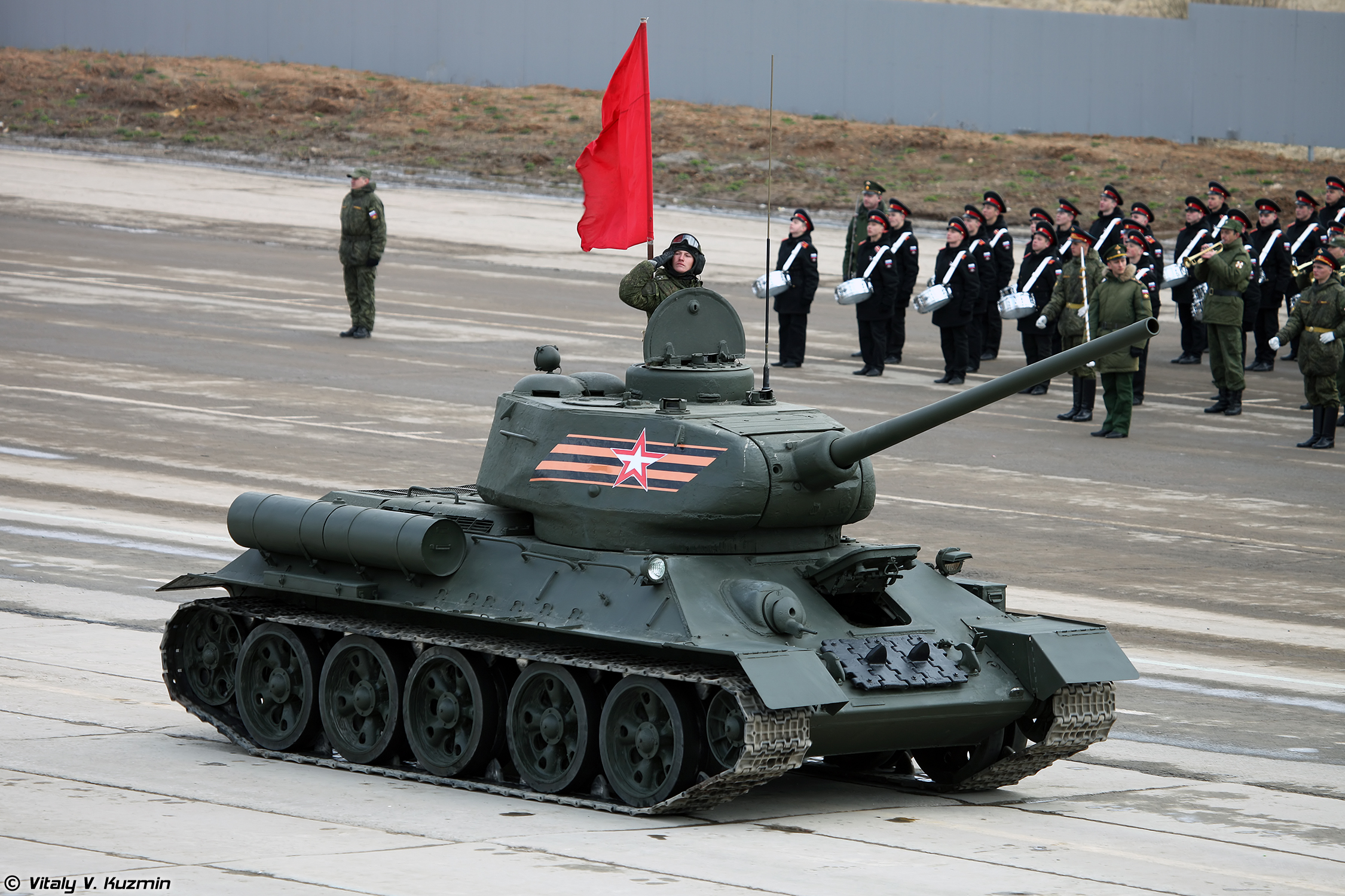 T-34-85